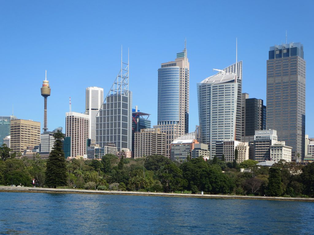 Sydney Skyline Fine views of the Sydney, Australia, skyline are obtained across Farm Cove. The needle on the left is the Sydney Tower Eye erected in 1981.